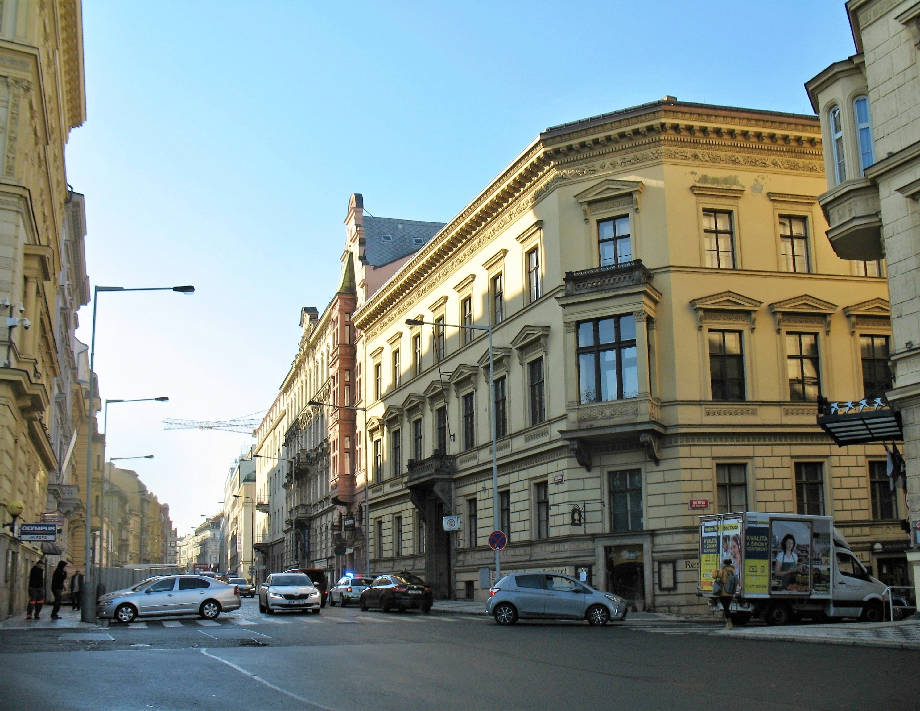 House Nr. 1441 in Praha 1 - Nové Město